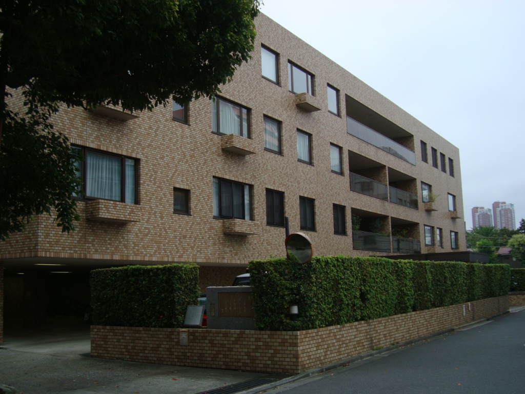 An apartment building on the former Aoyama No-byoin (Aoyama Mental hospital) site, Aoyama, Tokyo